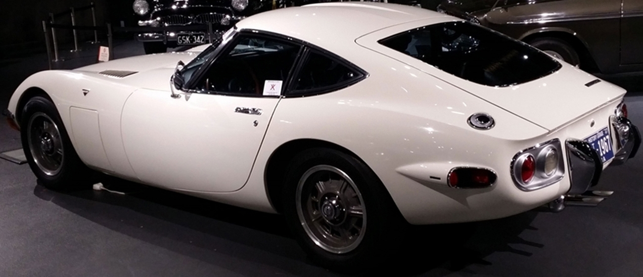 Toyota 2000GT